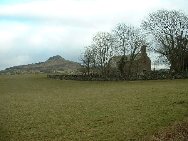 Ynyscynhaearn Church near Pentrefelin. This is the only building in the square, with just a rough track leading to it. The grave yard goes back 3 centuries and is the resting place of David Owen, the harpist and composer known as Dafydd y Garreg wen, who died in 1749 at the age of 29.